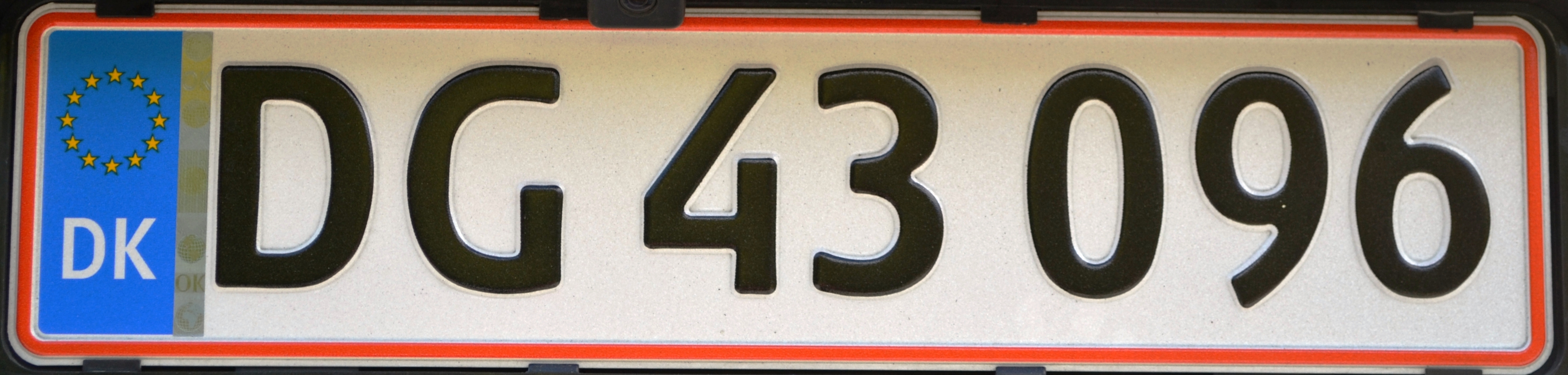 License plate of Denmark, 2011.